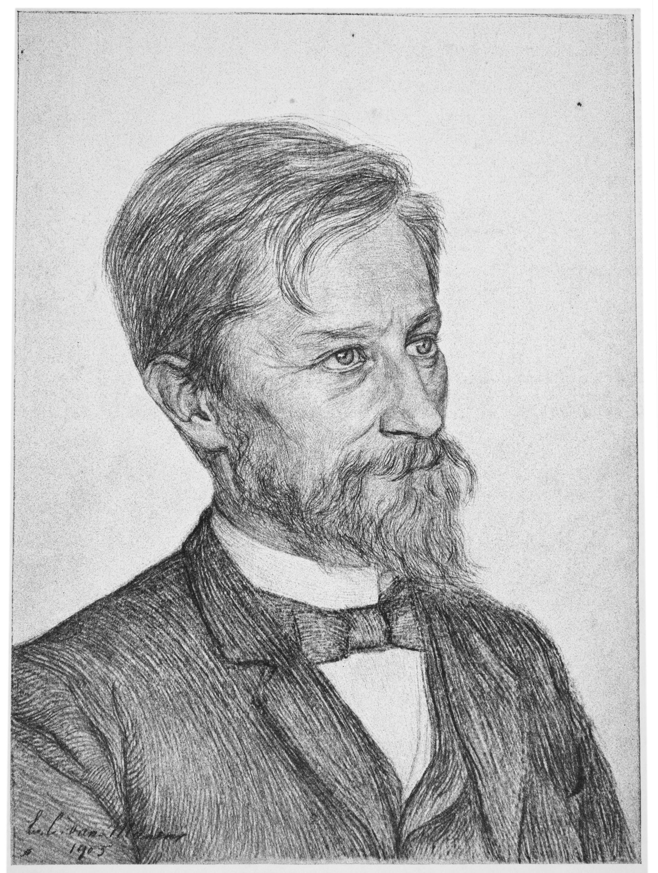 Leiden professor Gerbrandus Jelgersma. Drawing by Betsy van Manen (1905). Current location and provenance of the drawing unknown.